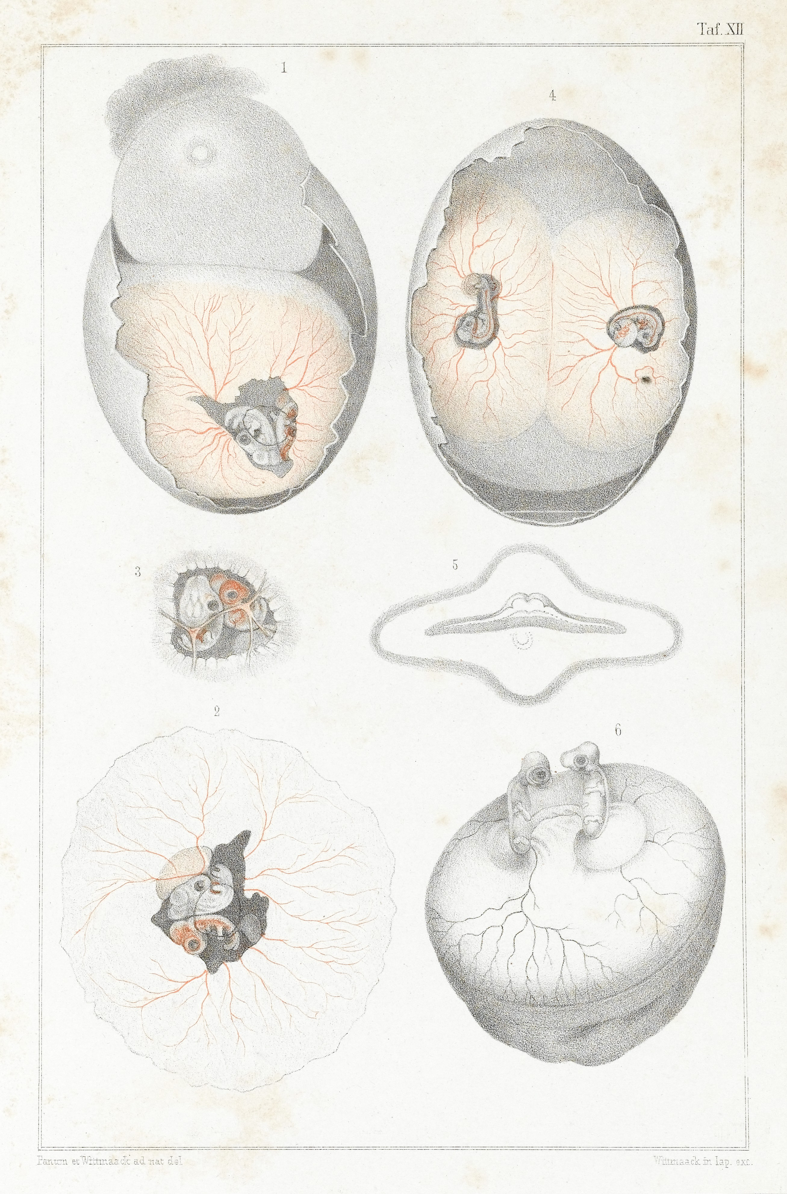 Bird embryo General Collections Keywords: Eggs; Egg; Peter Ludwig Panum